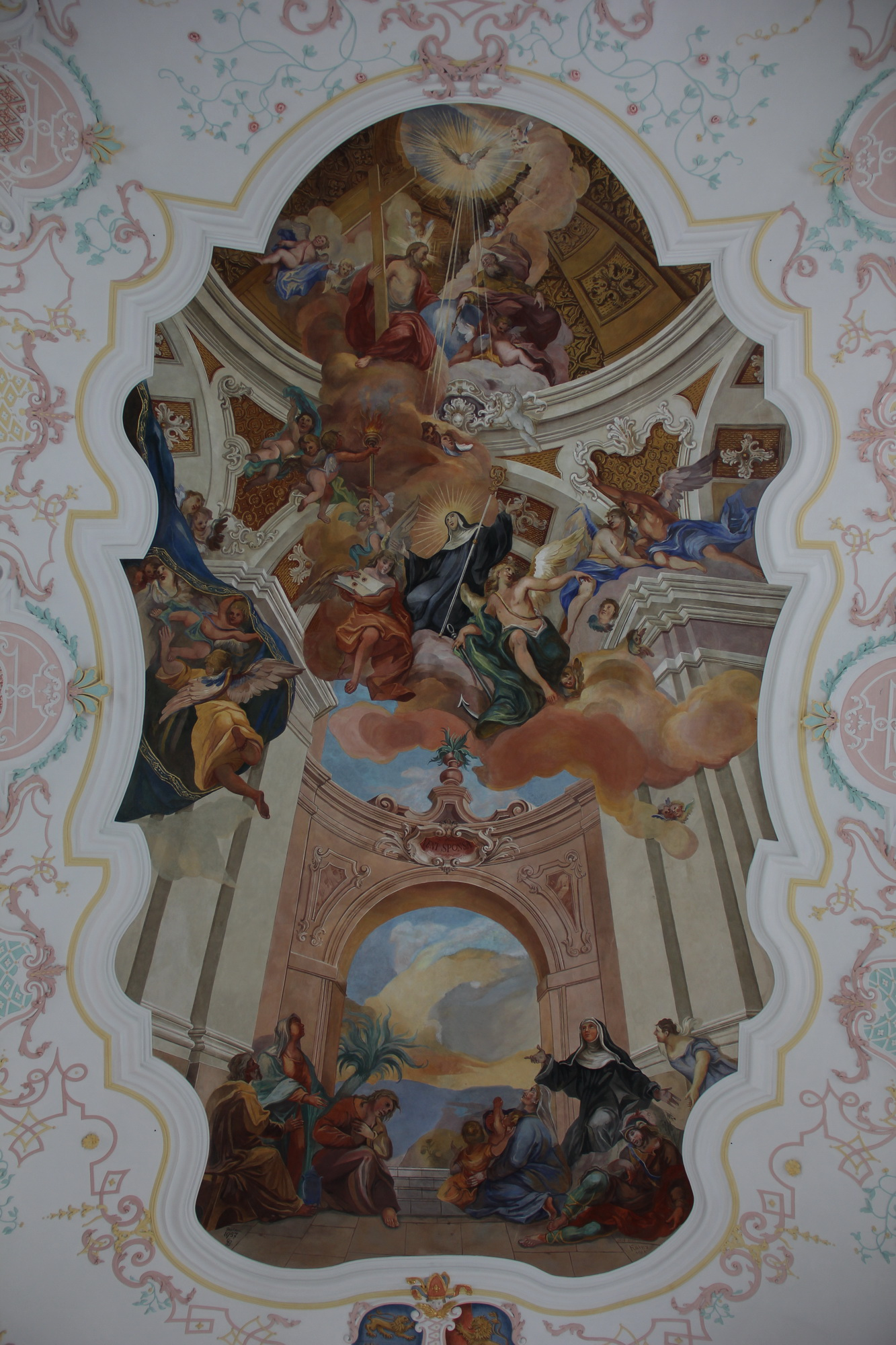 Pilgrimage church St. Odile Native nameWallfahrtskirche St. OttiliaLocationHellring, Lower Bavaria, GermanyCoordinates48° 51′ 04″ N, 12° 03′ 59″ E Authority control : Q18716335